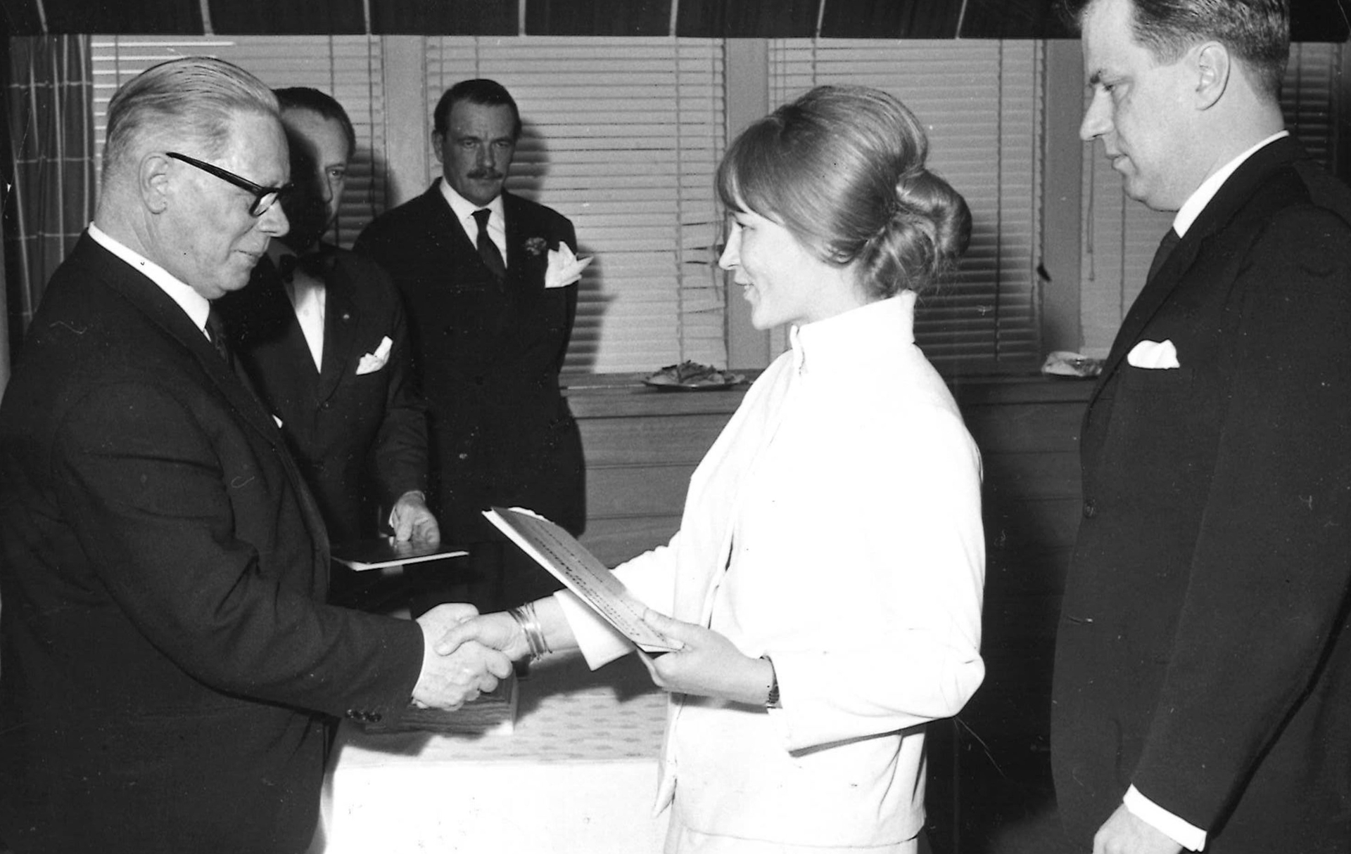 Photograph of the Finnish designers Antti (1927–2003) and Vuokko Nurmesniemi (1930–) receiving Grand Prix medals (Milano XIII Triennale) from the Finnish minister of Education Jussi Saukkonen (left).